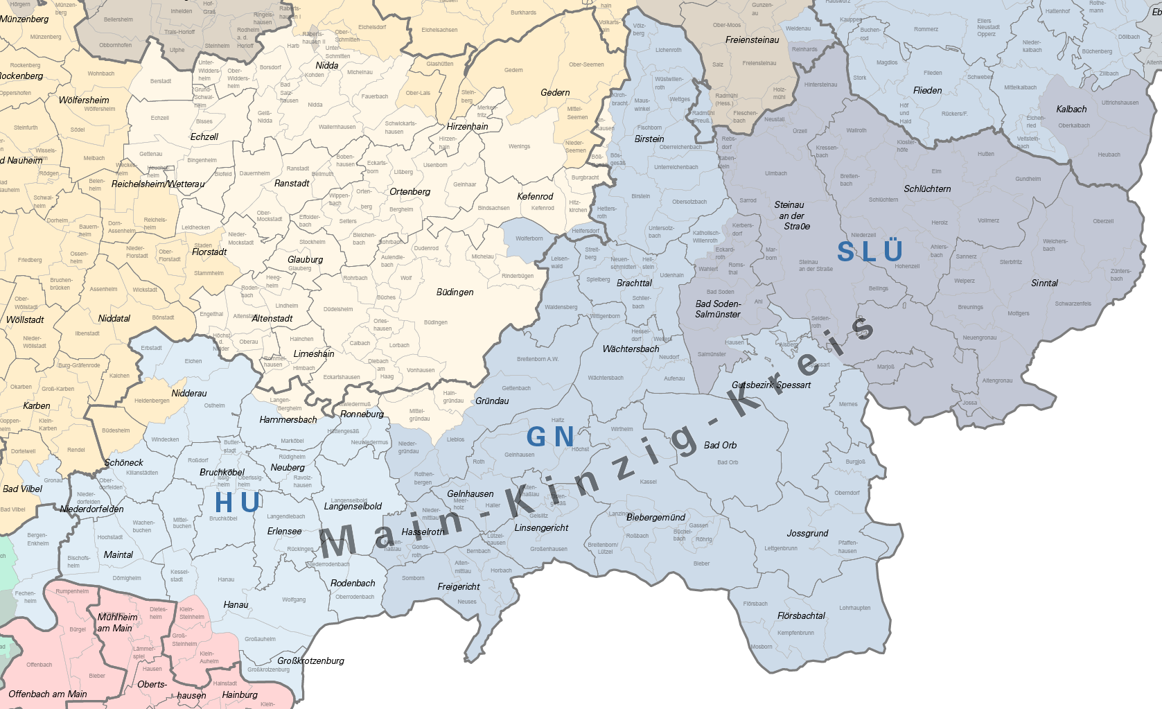 Old Counties in 1900 in Main-Kinzig-Kreis, Hesse, Germany.